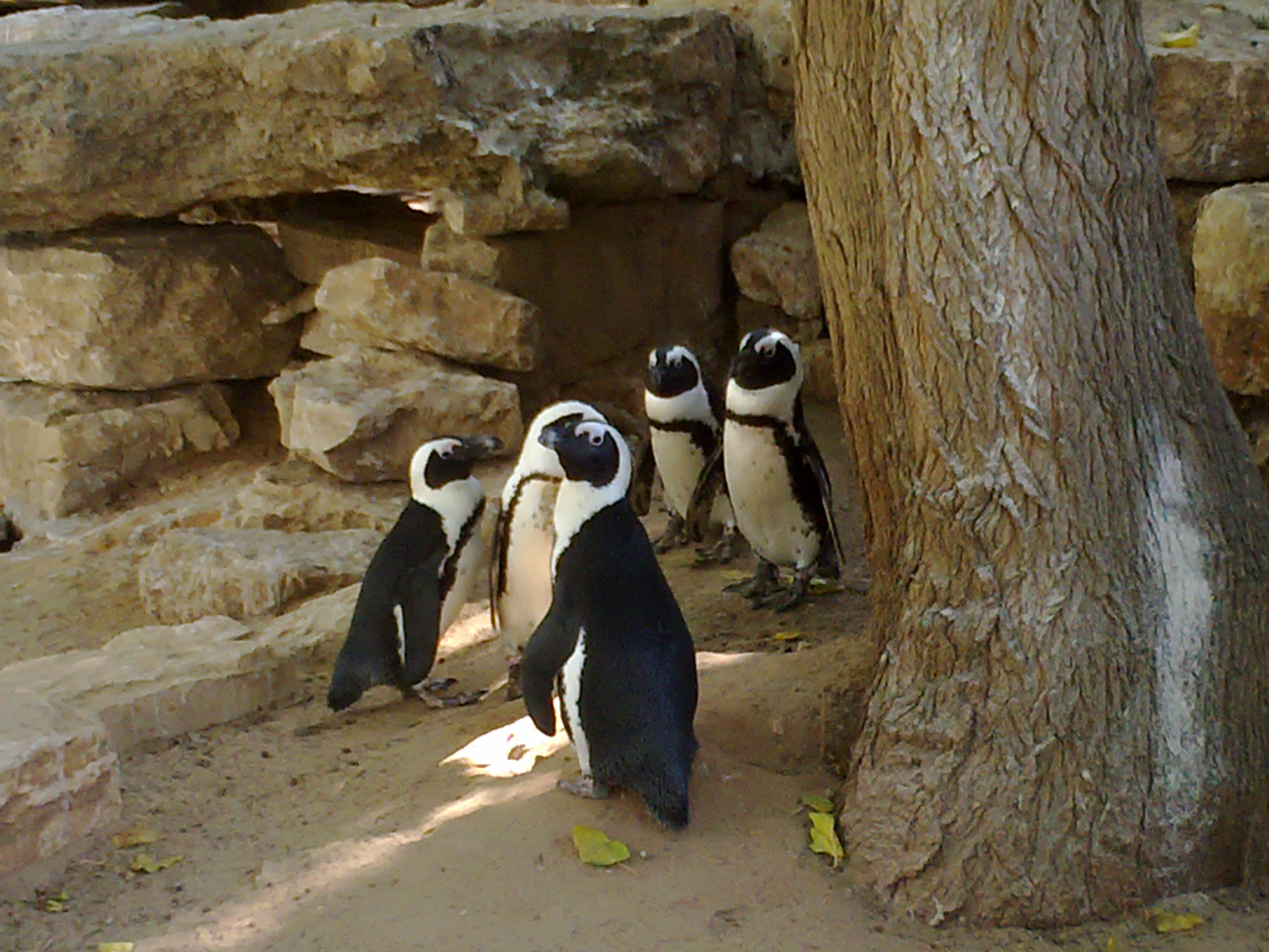 Spheniscus demersus in the Zoological Center of Tel Aviv-Ramat Gan, Israel